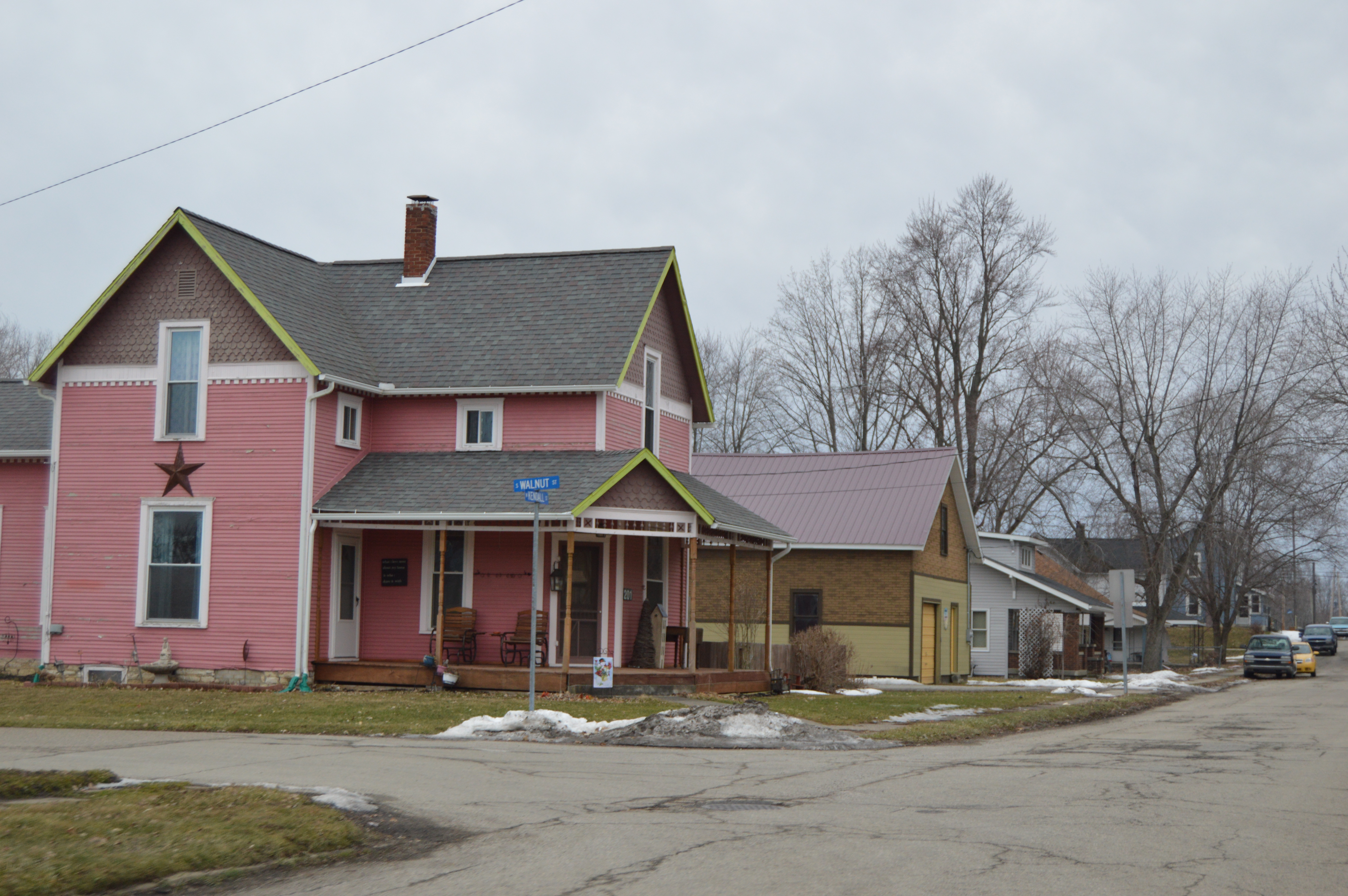 Houses on the southern side of Kendall Street at the Walnut Street intersection in La Fontaine, Indiana, United States. This block is part of the LaFontaine Historic District, a historic district that is listed on the National Register of Historic Places.